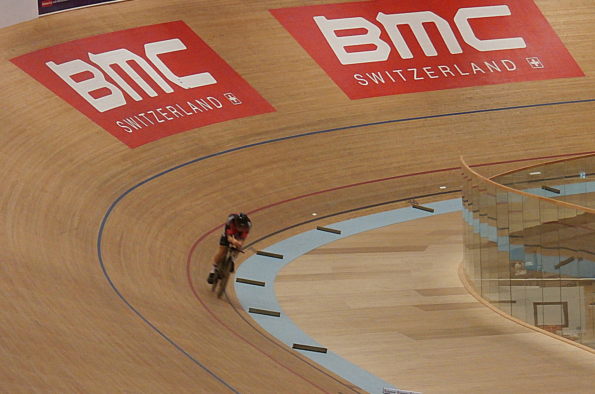 Rohan Dennis during his hour record in Grenchen, Switzerland.